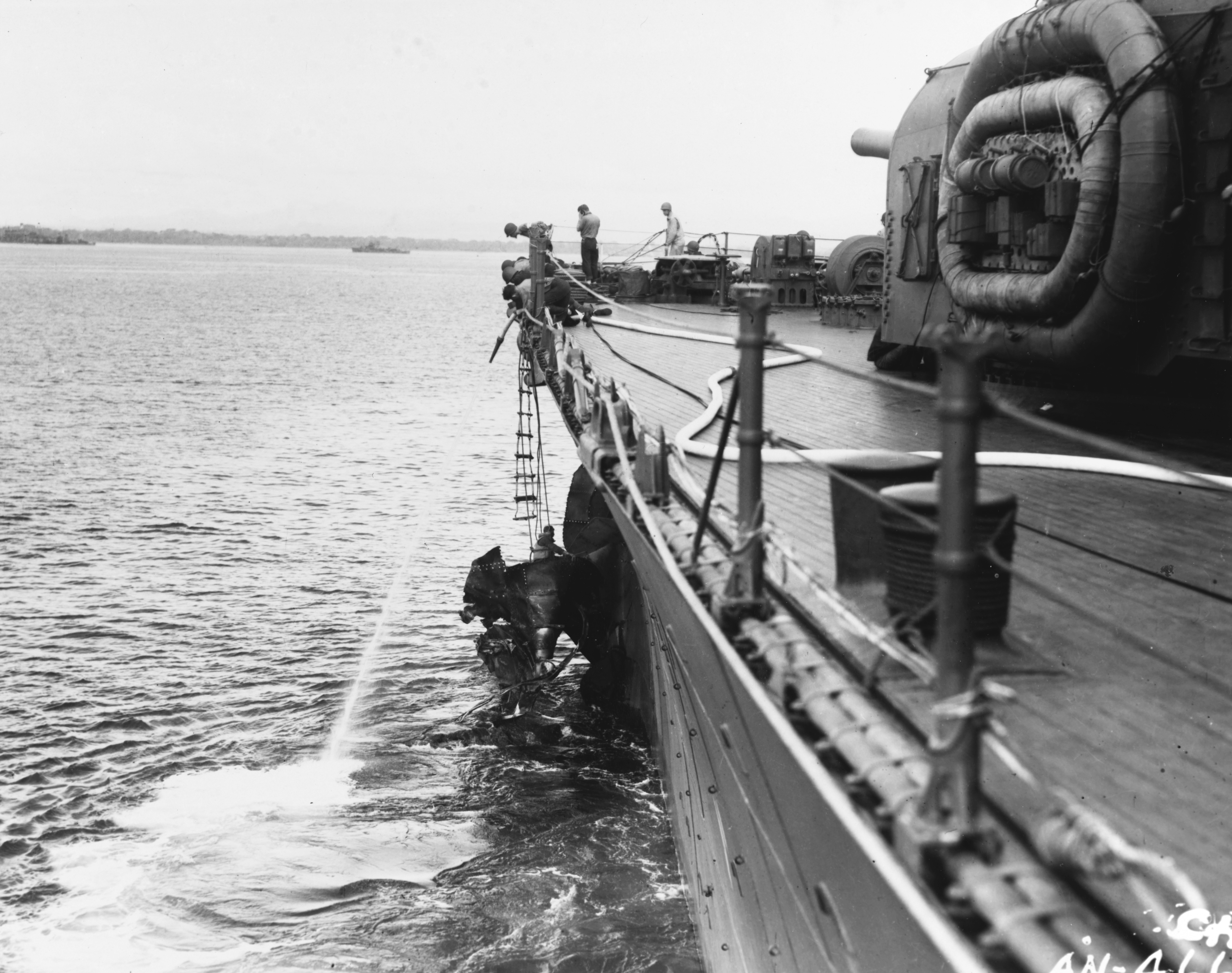 The U.S. Navy heavy cruiser USS Chicago (CA-29) off Guadalcanal the day after the Battle of Savo Island, showing crewmen cutting away damaged plating to enable the ship to get underway. She had been torpedoed at her extreme bow during the night action of 9 August 1942. The view looks forward along her port side, with the No. 1 eight-inch gun turret in the upper right. Note the life rafts hung on the turret side and the destroyers in the distance.